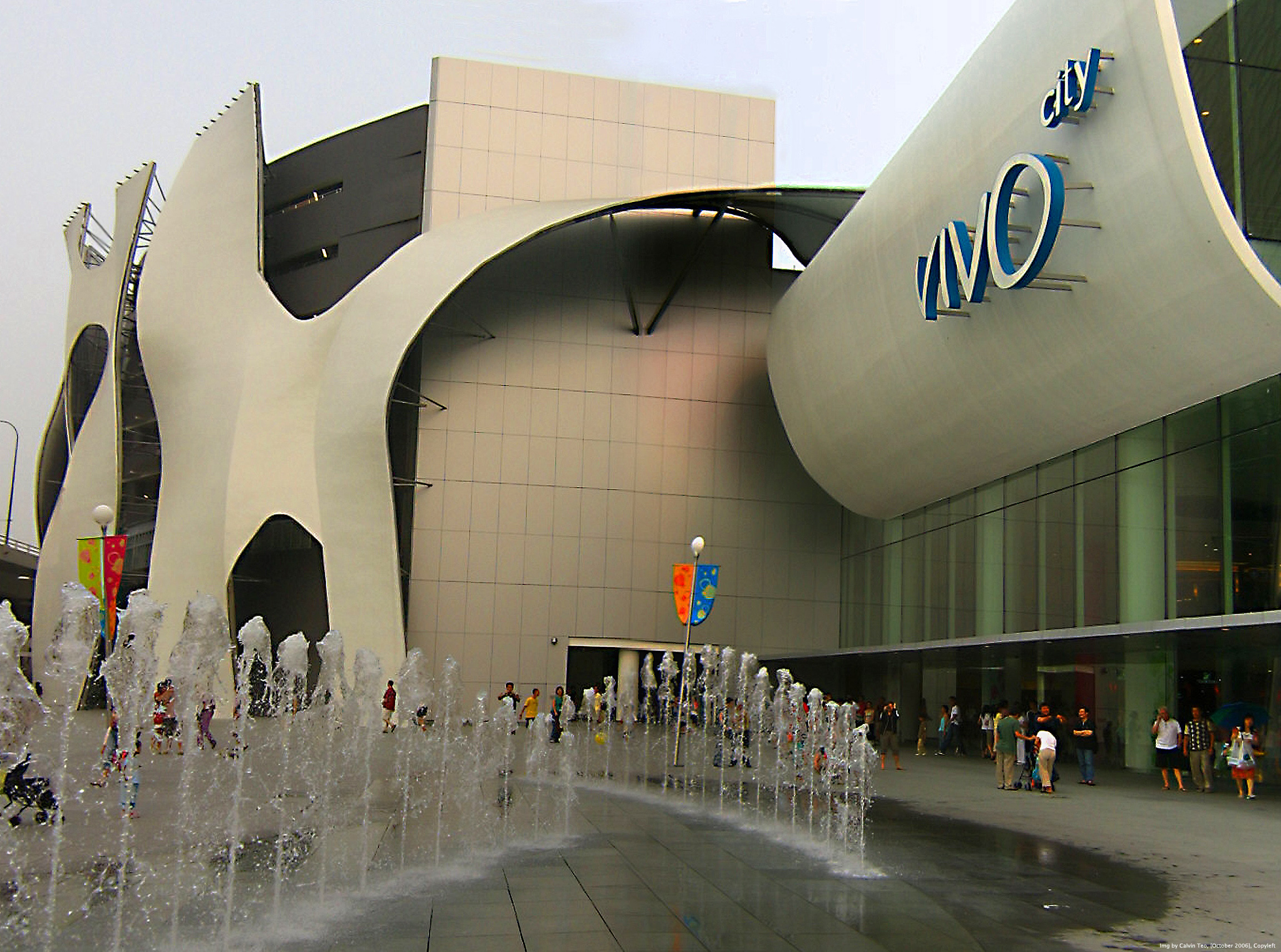 The main Entry Point into VivoCity, from Telok Blangah Road. VivoCity is in the heart of the sprawling 24-hectare HarbourFront precinct. Img by Calvin Teo, October 2006